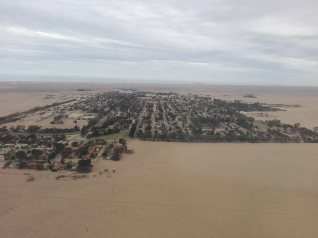 Oranjemund (2019)